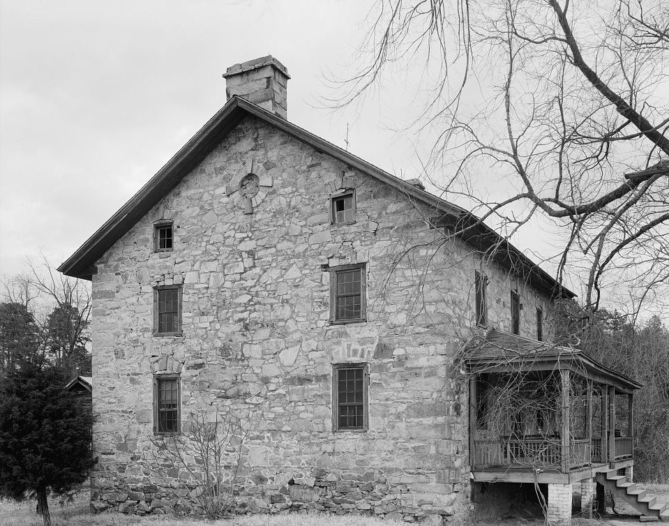 Hezekiah Alexander stone house, Charlotte vicinity (Mecklenburg County, North Carolina) cropped Carnegie Survey of the Architecture of the South (Library of Congress)